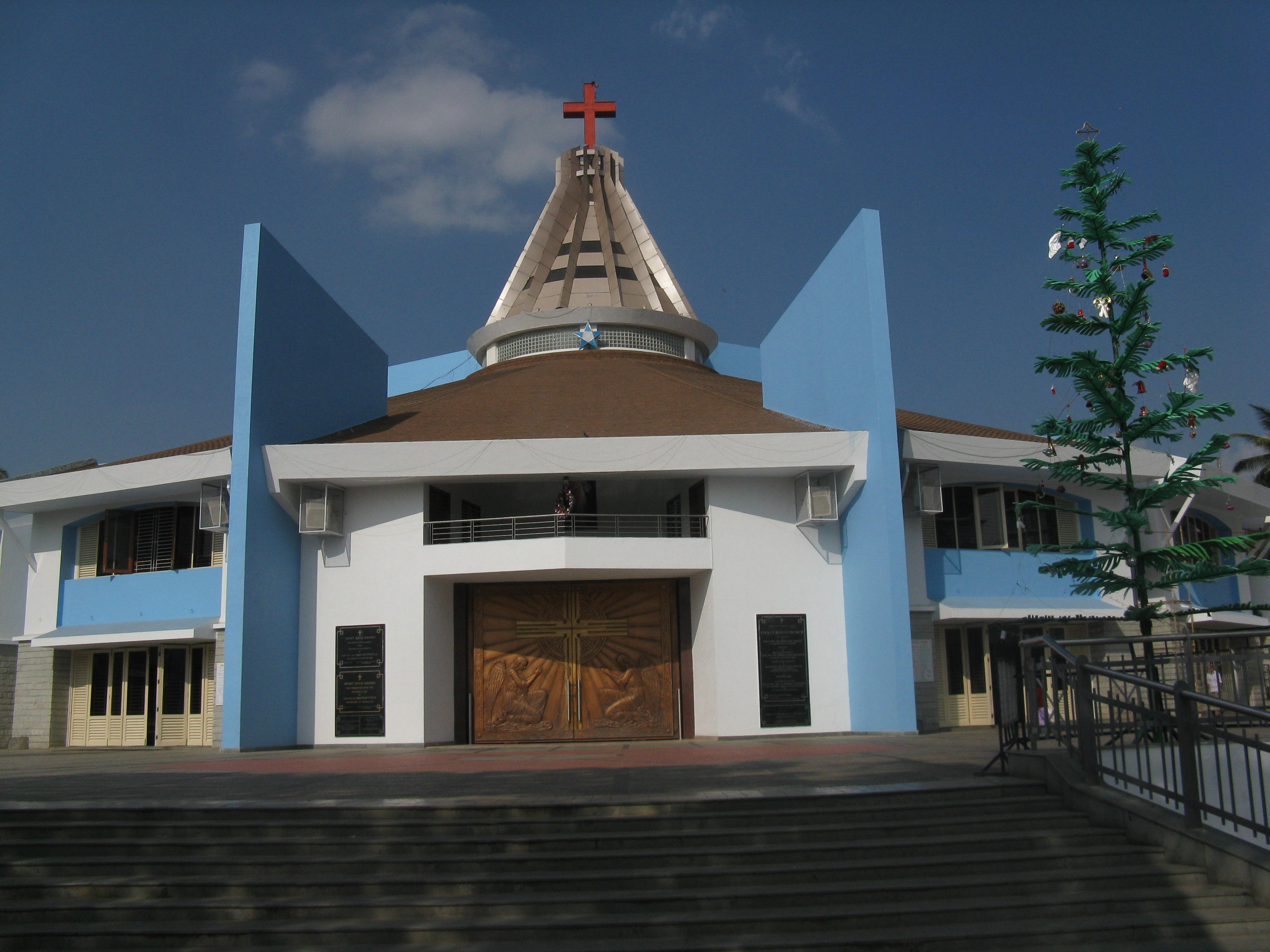 Infant Jesus Church,Vivek Nagar,Bangalore